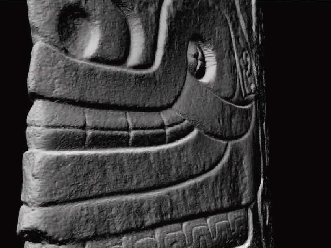 The Lanzon has been interpreted variously as a principal deity of Chavin, an oracle with the power to speak (thanks to a hole in the roof of the chamber), a symbol of trade, fertility, dualism, and humankind's interaction with nature, or any combination of these. What is evident is that the 4.5m (15 feet)-tall obelisk is a painstakingly carved piece of white granite in a roughly lance-like shape, and depicts a human-feline hybrid with claws, writhing snakes for hair and eyebrows, fangs curved sideways in a smile (thus the nickname 'Smiling God'), and one arm raised while the other is lowered. Other carvings at Chavin de Huantar depict Lanzon clutching a Strombus shell in one hand and a Spondylus shell in the other, which has been interpreted as a possible reference to fertility and the duality of the sexes.